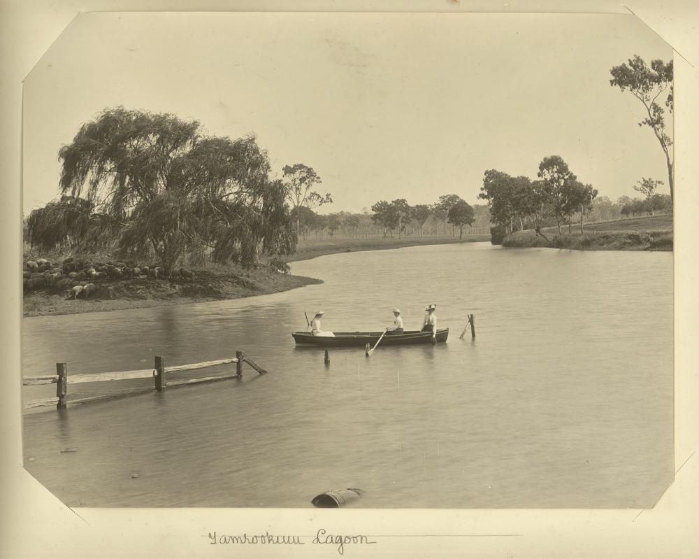 Rowing on Tamrookum Lagoon in the Beaudesert Shire